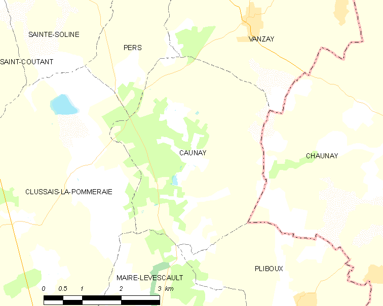 Map of French municipality Caunay